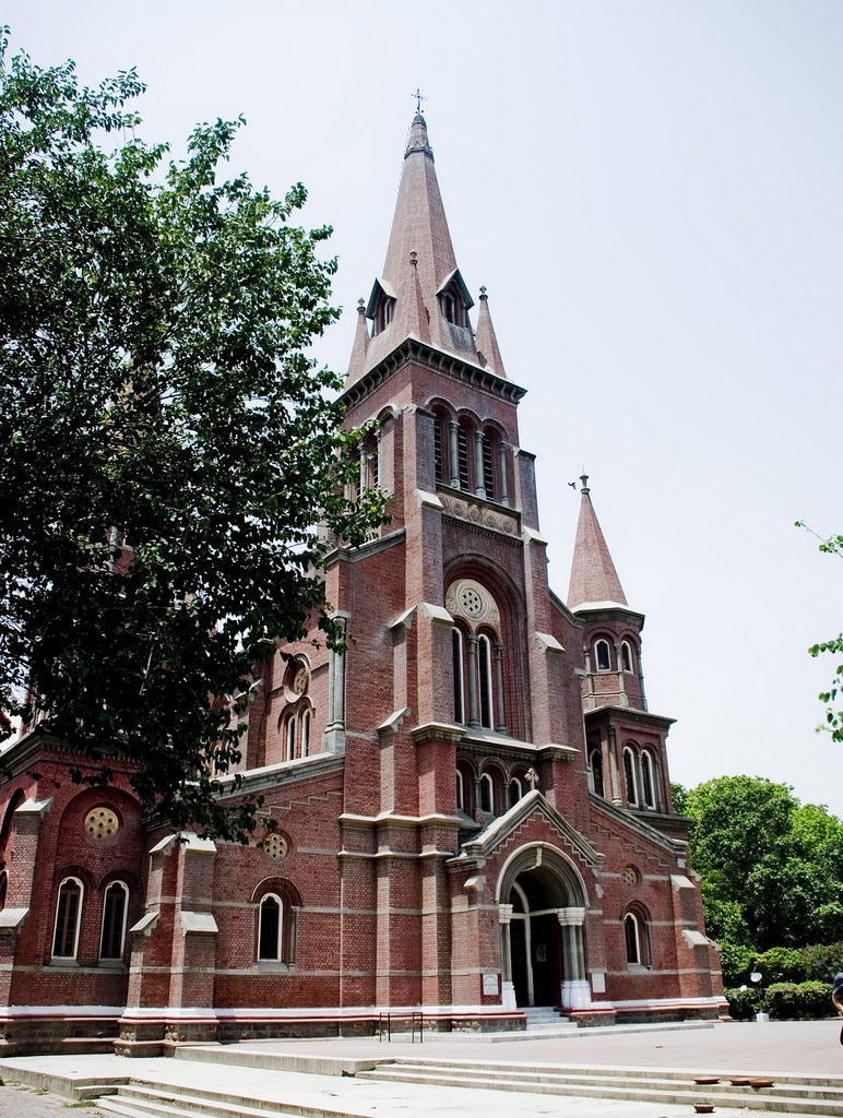 Cathedral of Lahore, and seat of archbishop of Lahore, in Pakistan.